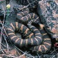 Crotalus oreganus oreganus — Northern Pacific rattlesnake. In north-central Oregon. Diagnostic note: According to the photographer, this picture was taken in the United States in central Oregon near the towns of either Mitchell or Ashwood, which are not that far apart. These towns are in the counties of Wheeler and Jefferson respectively, which border each other in the north-central part of the state. Assuming this is correct, then according to the map provided by Campbell & Lamar (2004), this specimen would be an example of Crotalus oreganus oreganus, the northern Pacific rattlesnake. Since C. oreganus is the only rattlesnake species found in Oregon, the only other possibility would be Crotalus oreganus lutosus, the Great Basin rattlesnake, but according to the same map it is limited to the southwest of the state. The same conclusion can be drawn if the maps provided by Wright & Wright (1957), or Klauber (1997) are used. --Jwinius (talk) 12:36, 17 September 2008 (UTC)